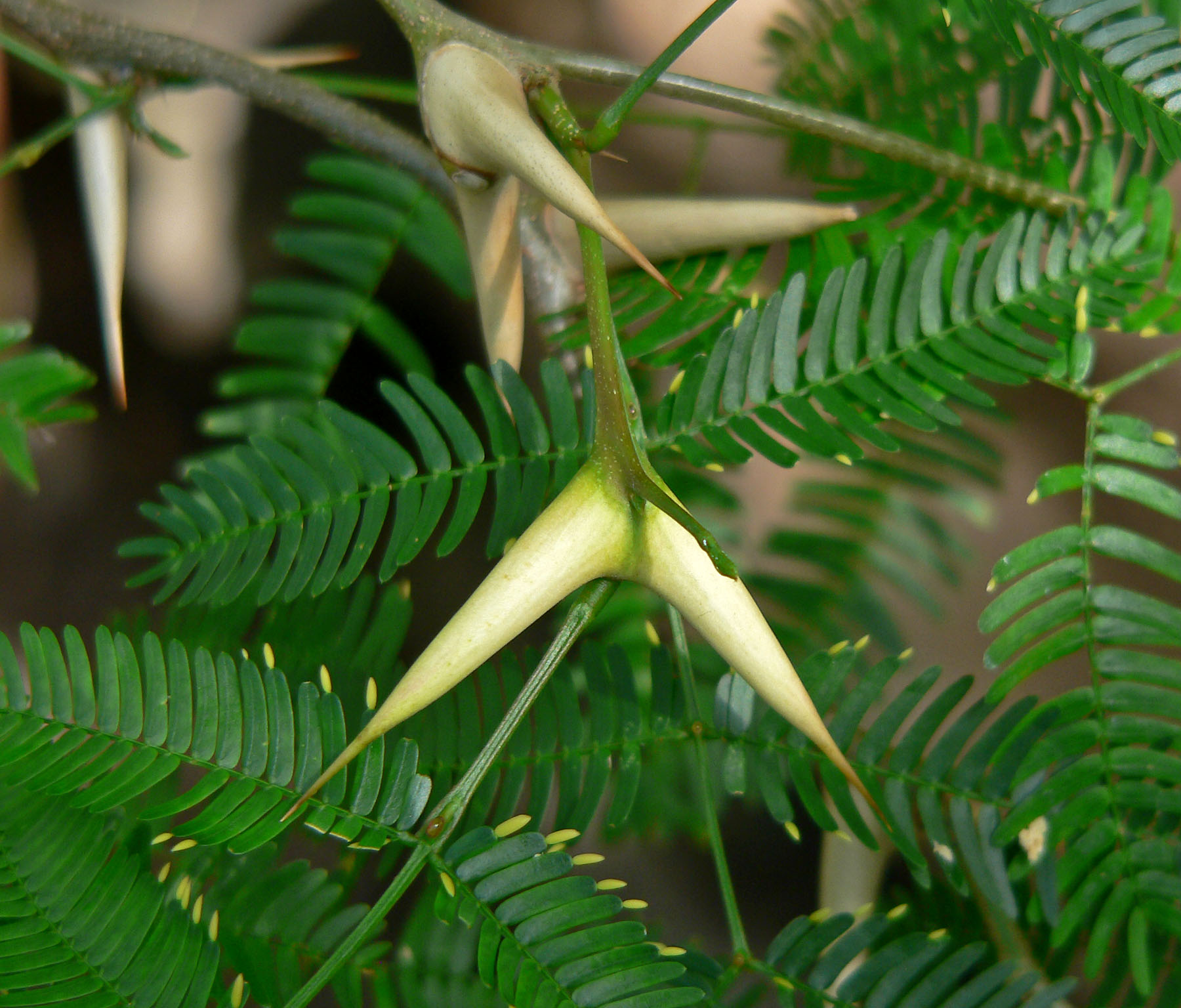 Acacia cornigera at the University of California Botanical Garden, Berkeley, California